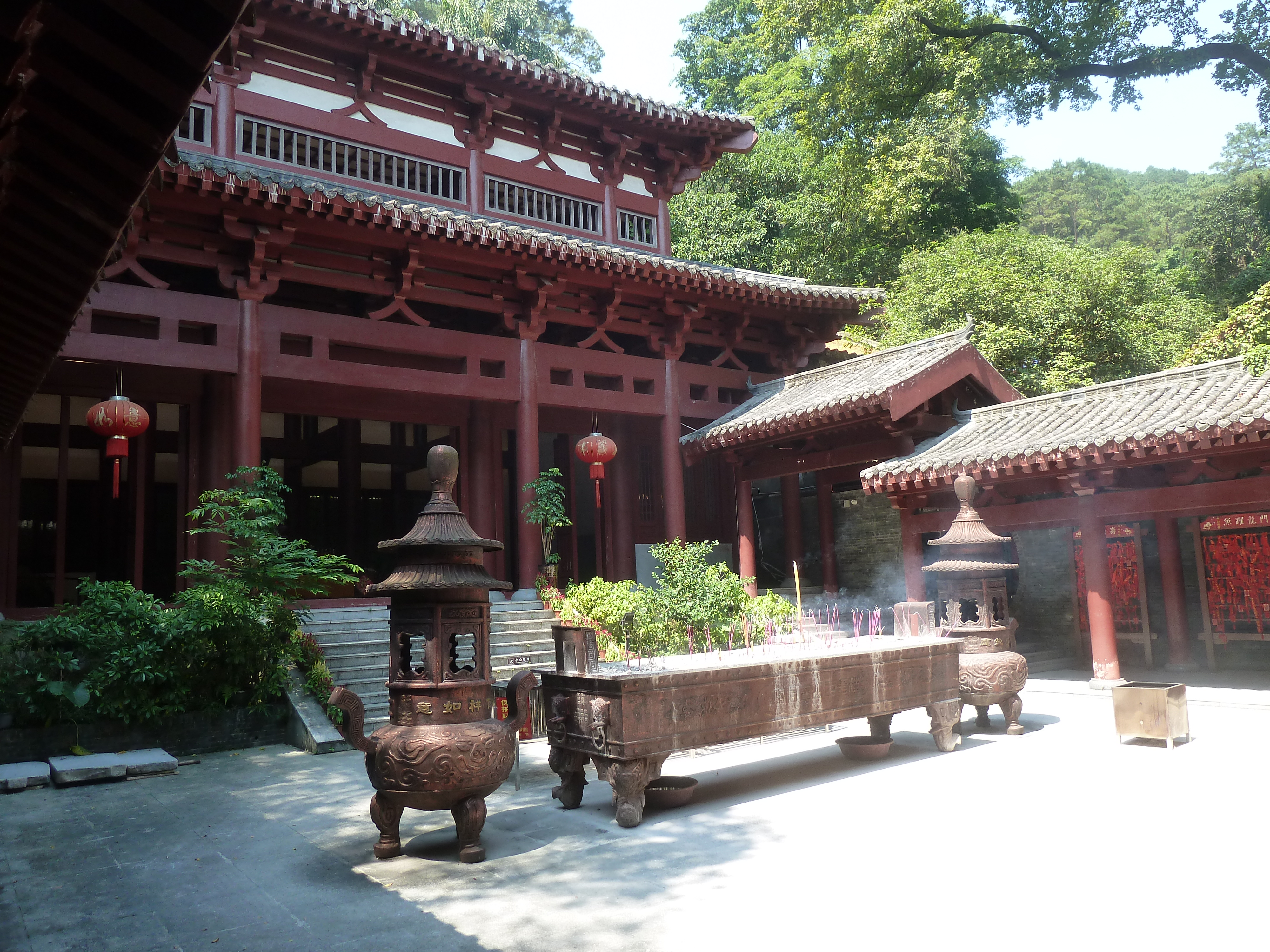 The Li Gong Memorial Temple (also known as the Guangyou Temple) is situated in the West Mountain National Scenic Zone in Guiping.